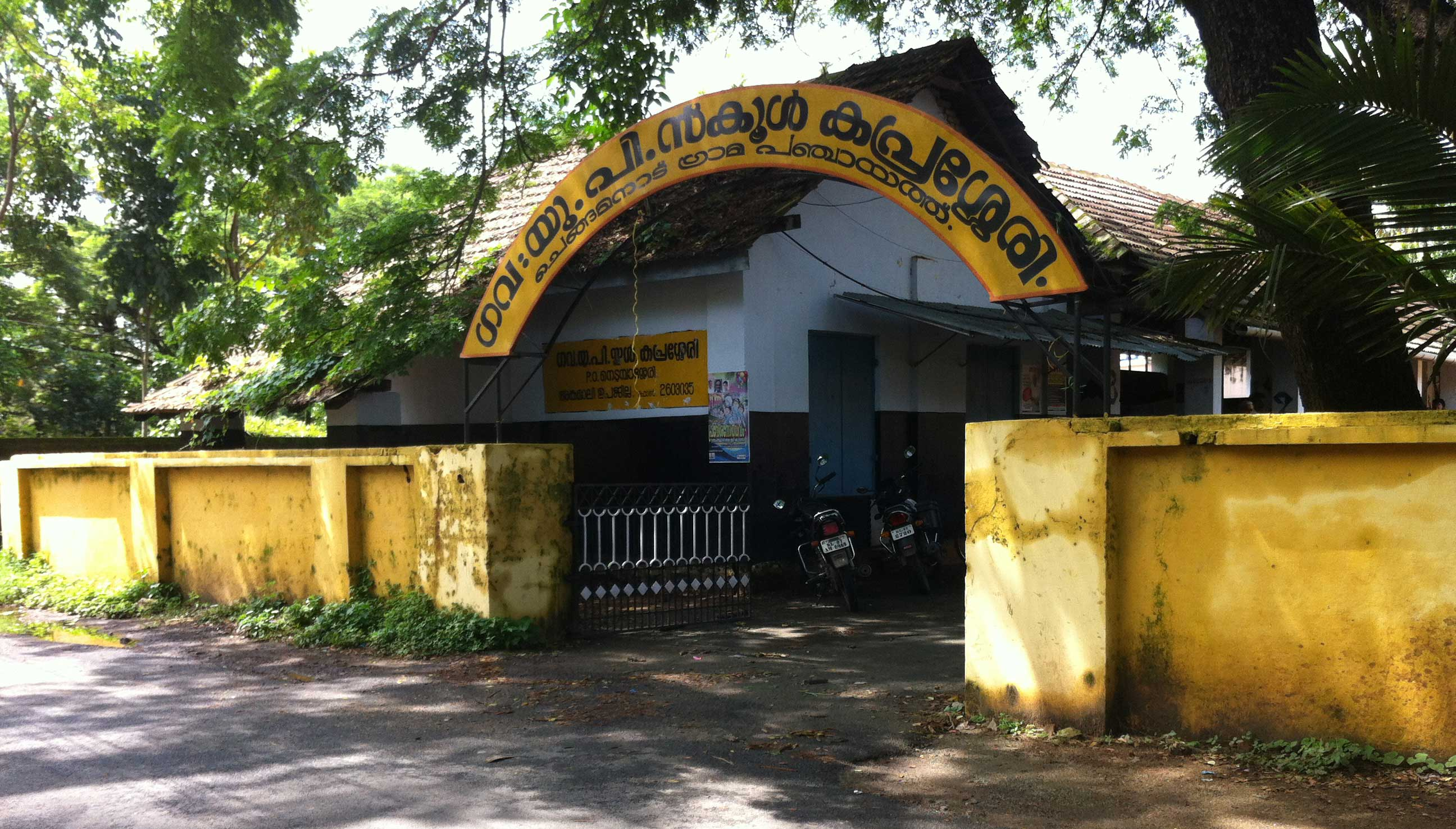 Entrance of Kaprassery Goverment UP School